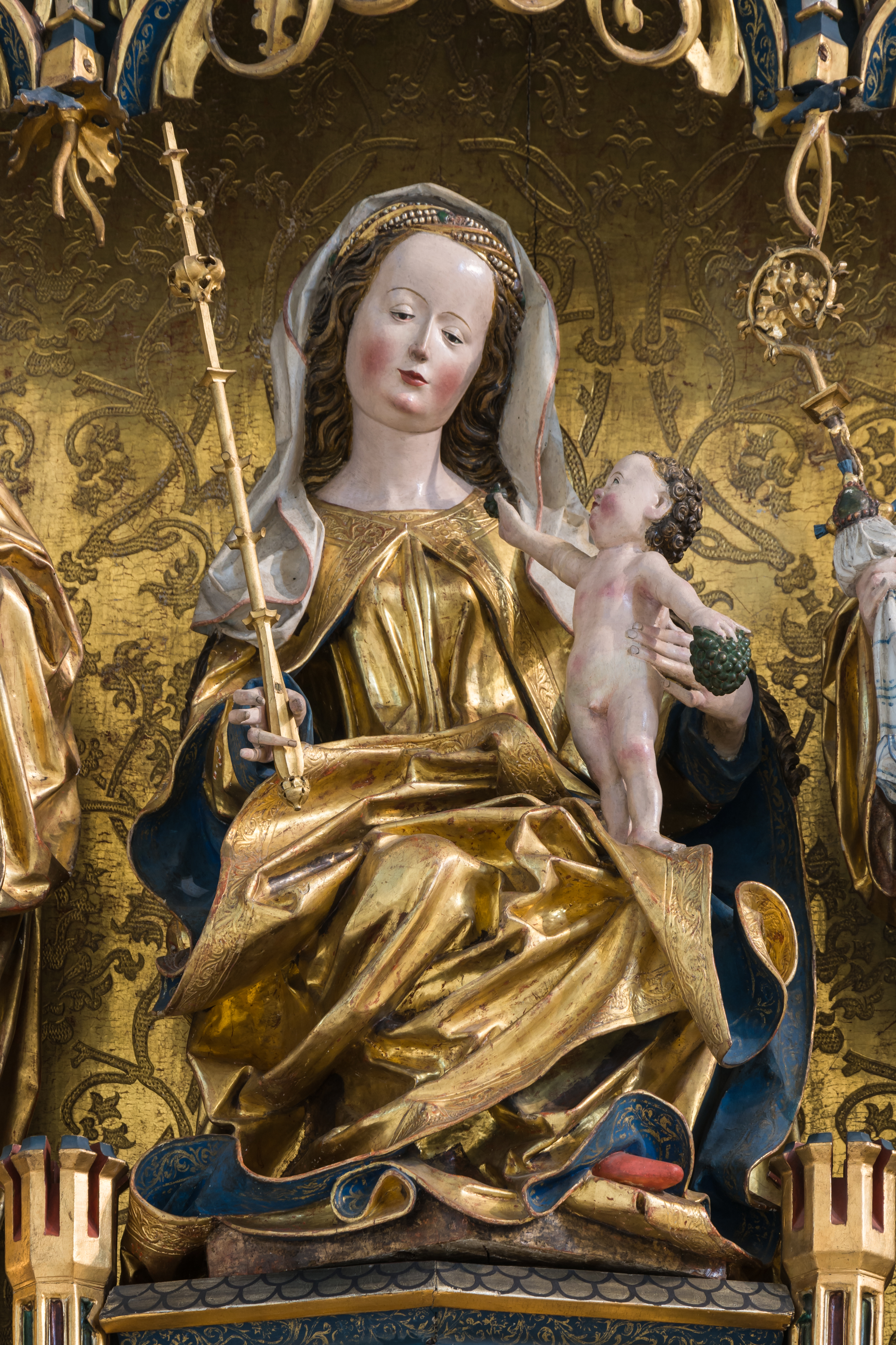 Madonna and Child at the Bernardi-Altar of Zwettl Abbey Church, Lower Austria. Anonymous master around 1500.